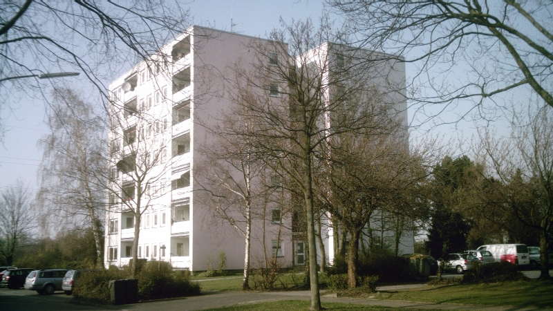 High building in Ummer, Viersen, Germany